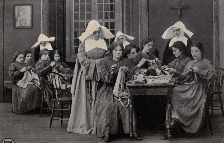 Still from the silent film Her Humble Ministry (USA 1911), directed by Harry Solter. Published in David S. Hulfish, Cyclopedia of Motion-Picture Work (1914).